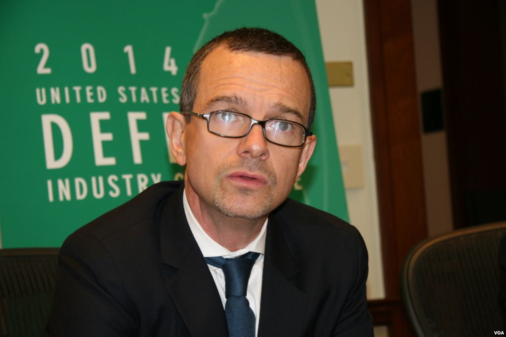 Rupert J. Hammond-Chambers, the president of US-Taiwan Business Council, in US-Taiwan Defense Industry Conference 2014.